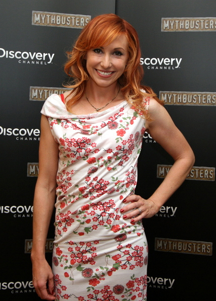 Kari Byron of Mythbusters fame at the San Diego Comicon in 2010